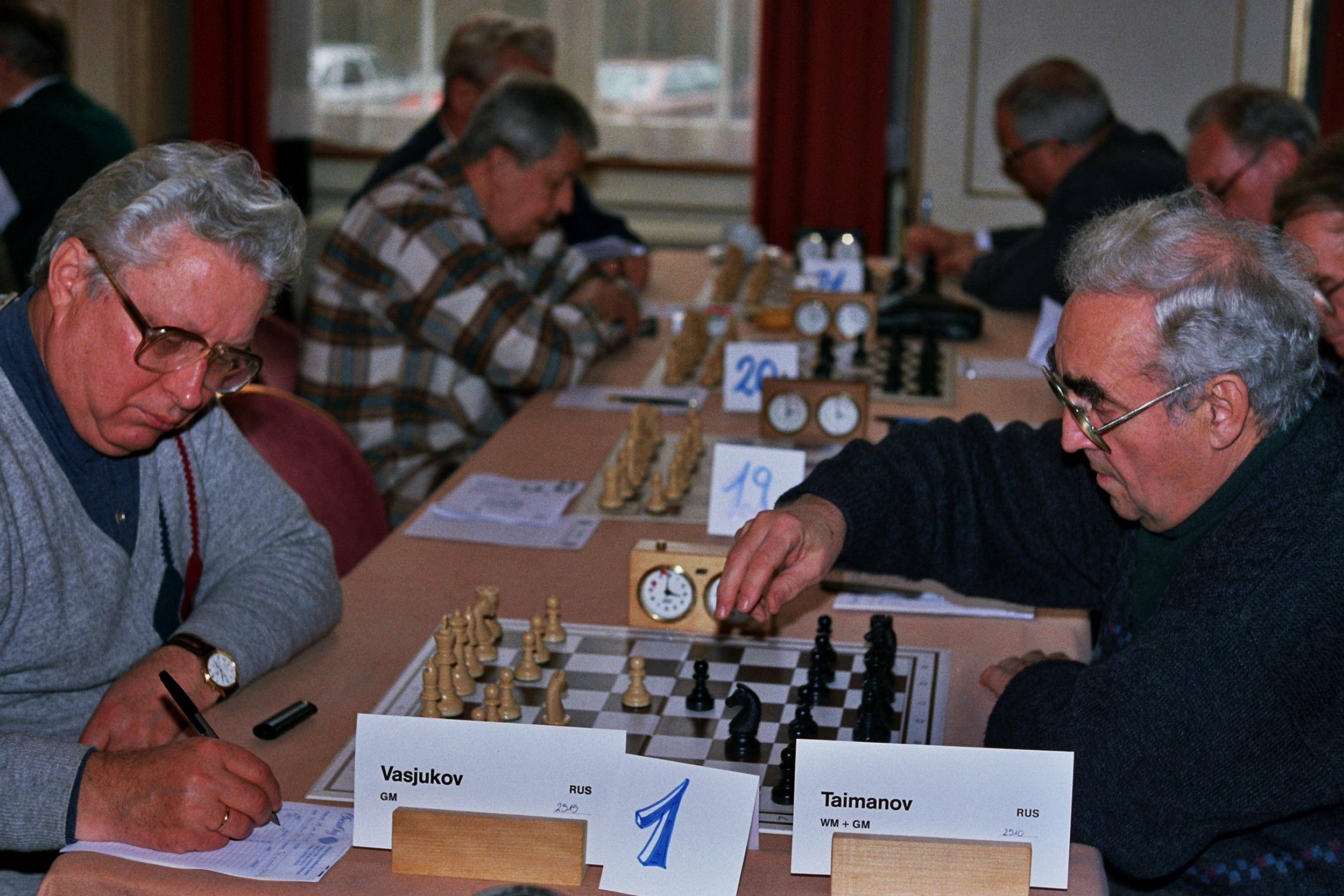 Vasiukov - Taimanov, Senior Chess World Championship 1995 at Bad Liebenzell, Photographer Gerhard Hund.